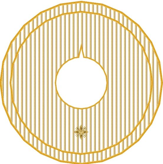 The fanon is a vestment that around the 10th or 12th century became reserved for the Pope alone and for use only during a pontifical Mass.